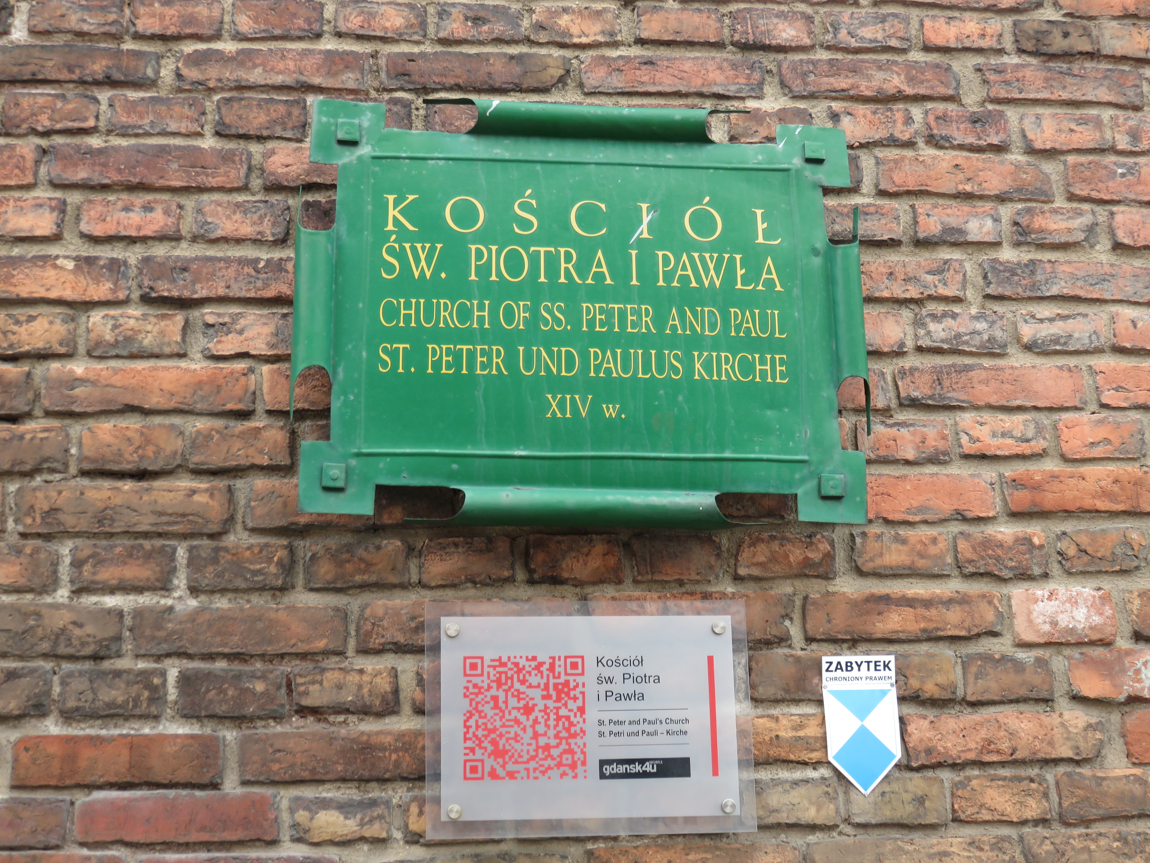 St. Peter and Paul Church in Gdansk